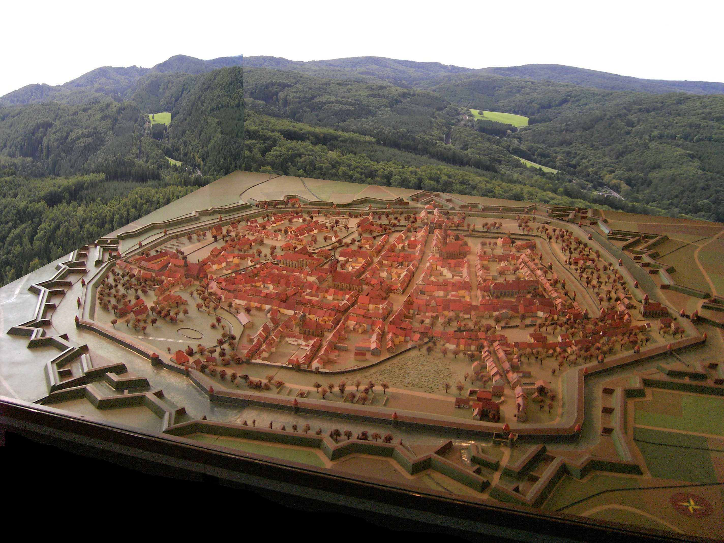 Göttingen, Stadtmuseum, model of city, ca. 1630. The forest is fiction, but typical for the region.